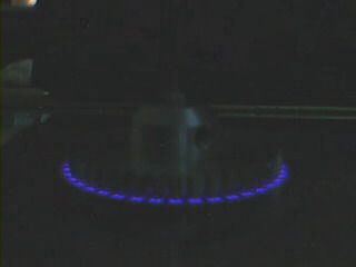 The corona discharge on teeth of a metallic gear